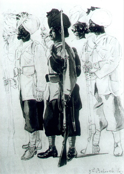 30th Regiment (3rd Belooch Battalion) Bombay Infantry (now 12 Baloch, Pakistan Army). Charcoal and watercolour by AC Lovett 1890.